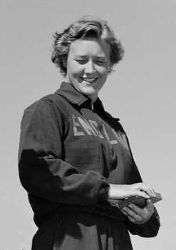 Three female swimmers (or divers) on the winners podium receiving their medals in the 1950 British Empire Games, Auckland. Photograph taken in 1950 by an Evening Post photographer.